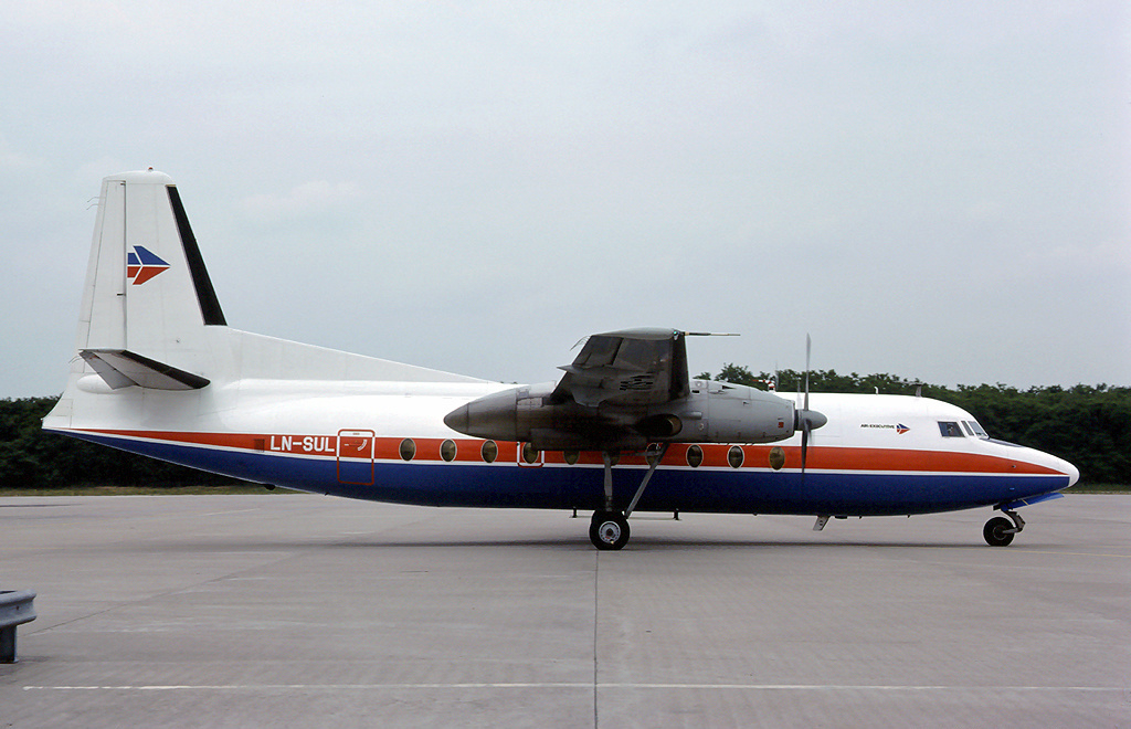 Air Executive LN-SUL Fokker F-27 at Basel Airport on 16 June 1978